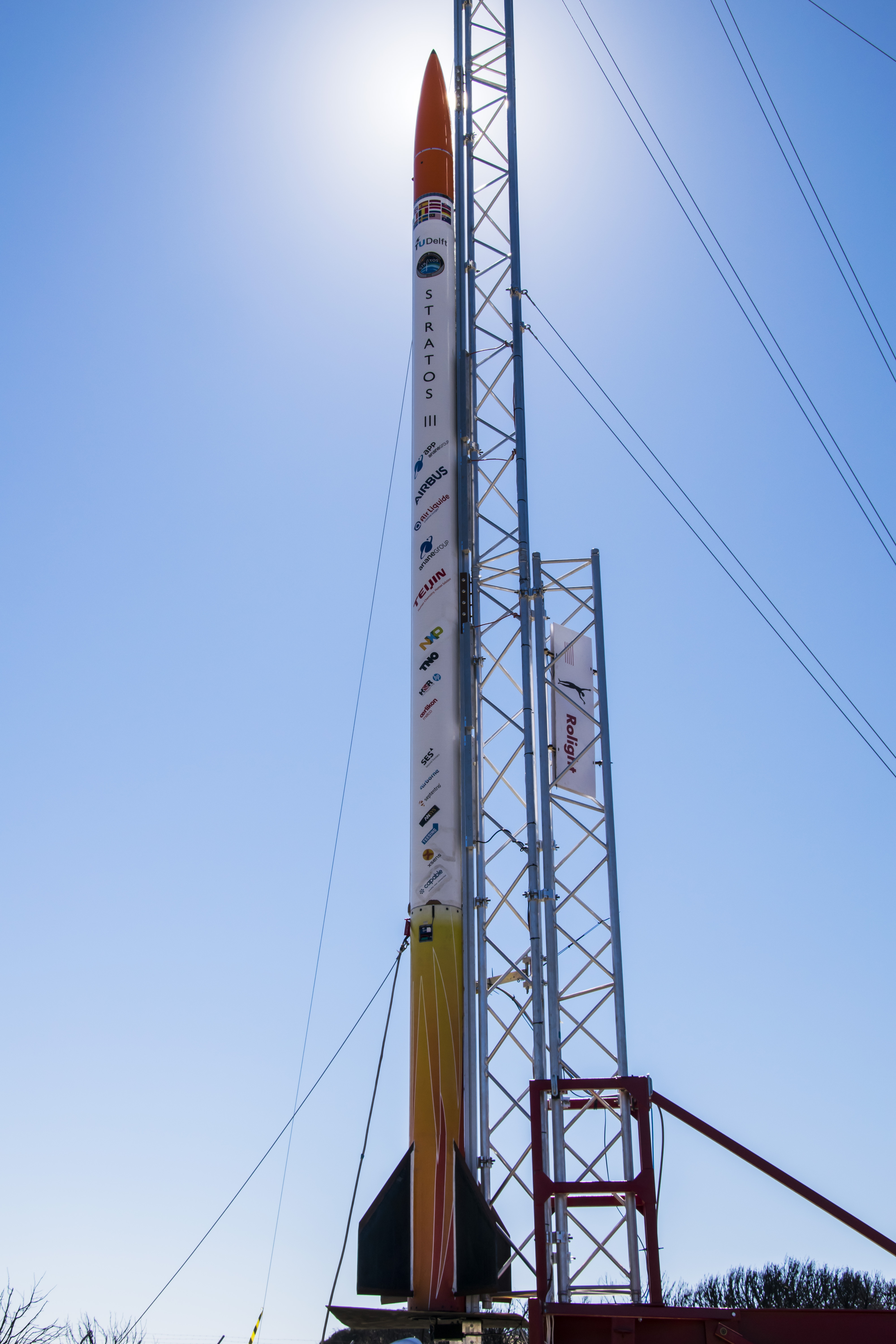 Stratos III rocket in the launch tower.